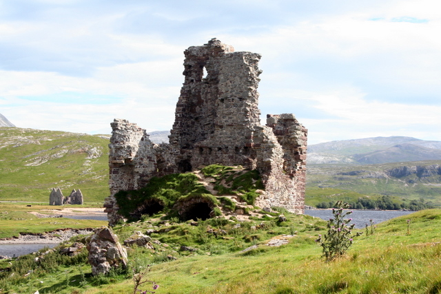 Ardvreck Castle